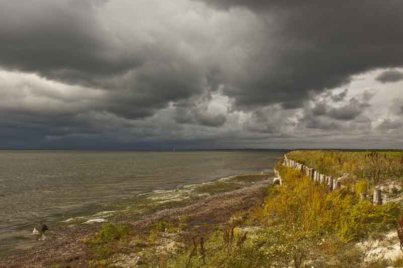 Dyke on the southwest coast of the Danish Isle Egholm